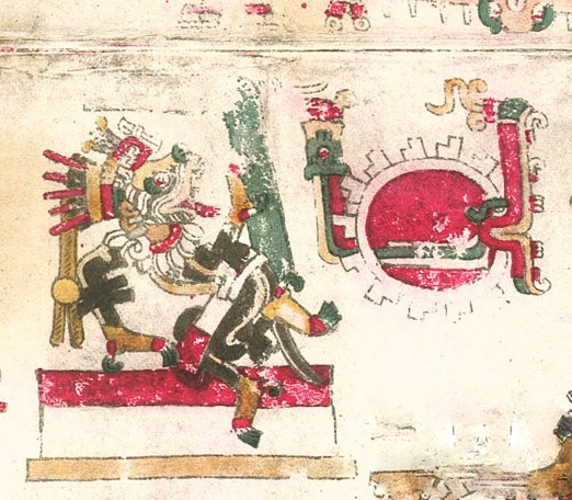 Xolotl with a Xiuhcoatl on page 38 of the Codex Borgia